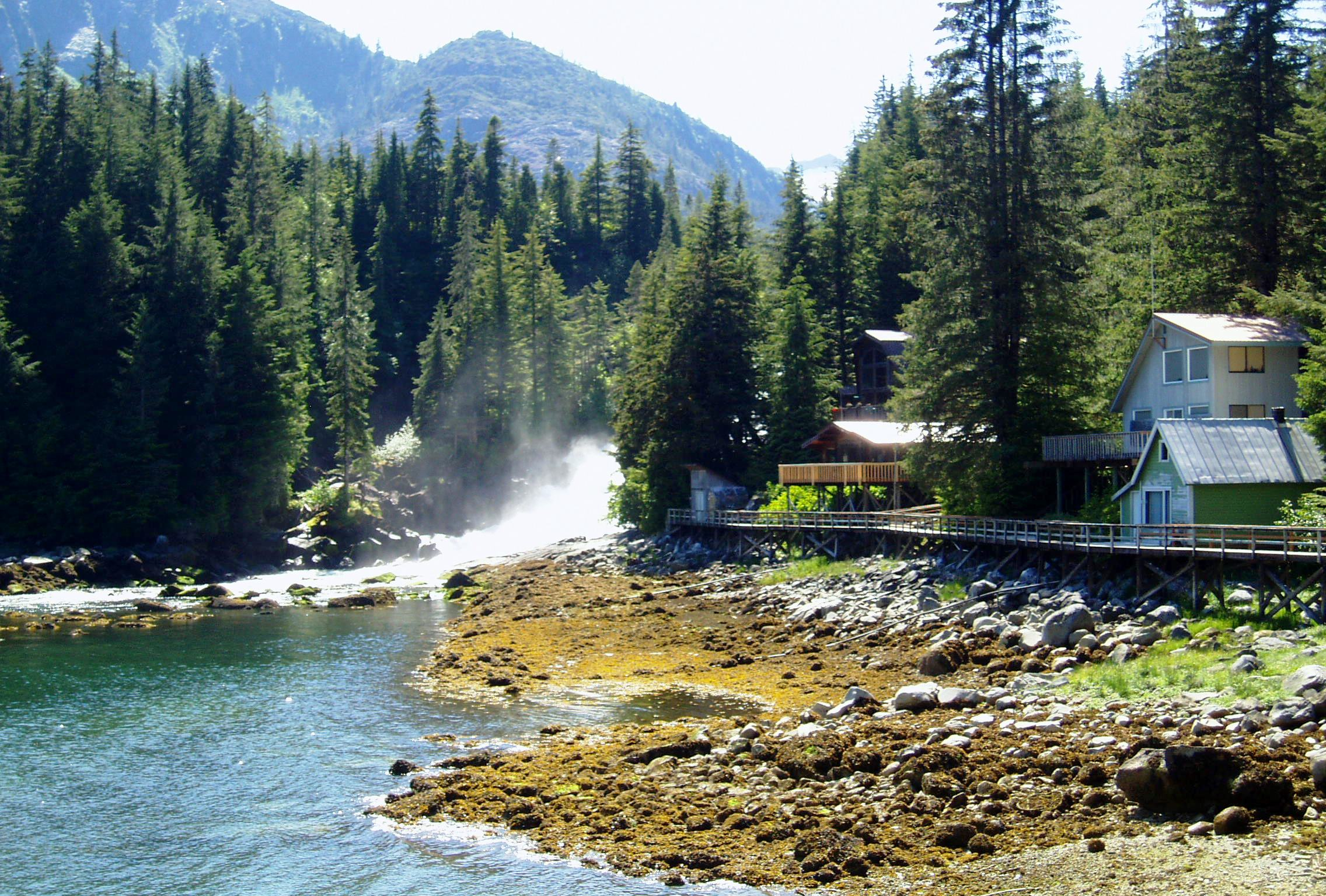 Baranof Warm Springs, Alaska, USA.